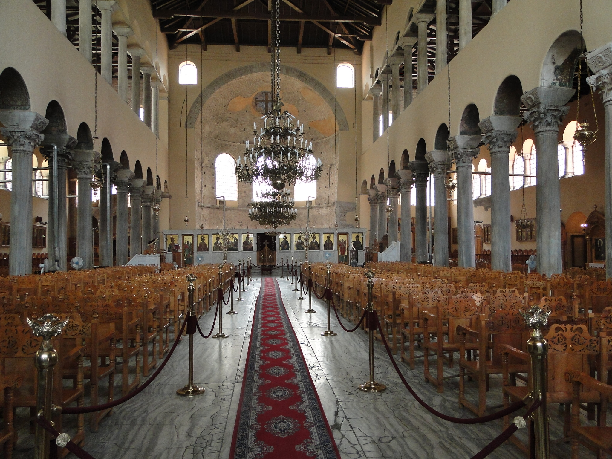 Acheiropoietos - View of the interior today.